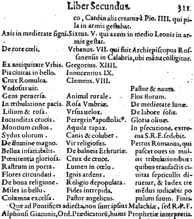 upper half of the 311 page of "Lignum Vitae" (1595) by Arnold Wyon with the final part of the "Prophetia S. Malachiae Archiepiscopi, de Summis Pontificibus"